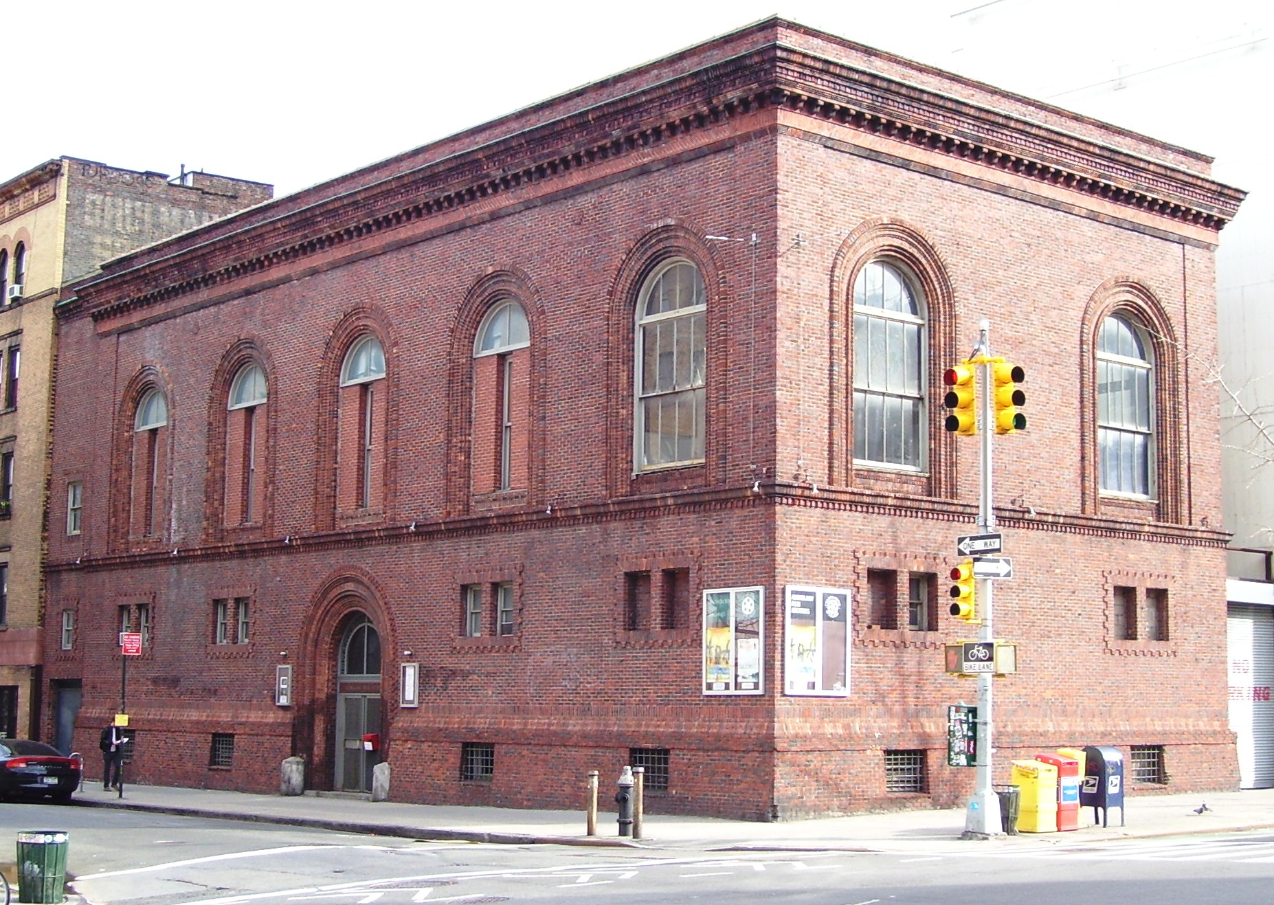 The Anthology Film Archives at 32 Second Avenue on the corner of East 2nd Street in the East Village neighborhood of Manhattan, New York City, was built in 1920 as the Second Avenue Courthouse. It was sold to AFA in 1979, and was converted for their use by architects Raimund Abraham and Kevin Bone. (Source: NYC GIS map and "History" on the Anthology Film Archives website)